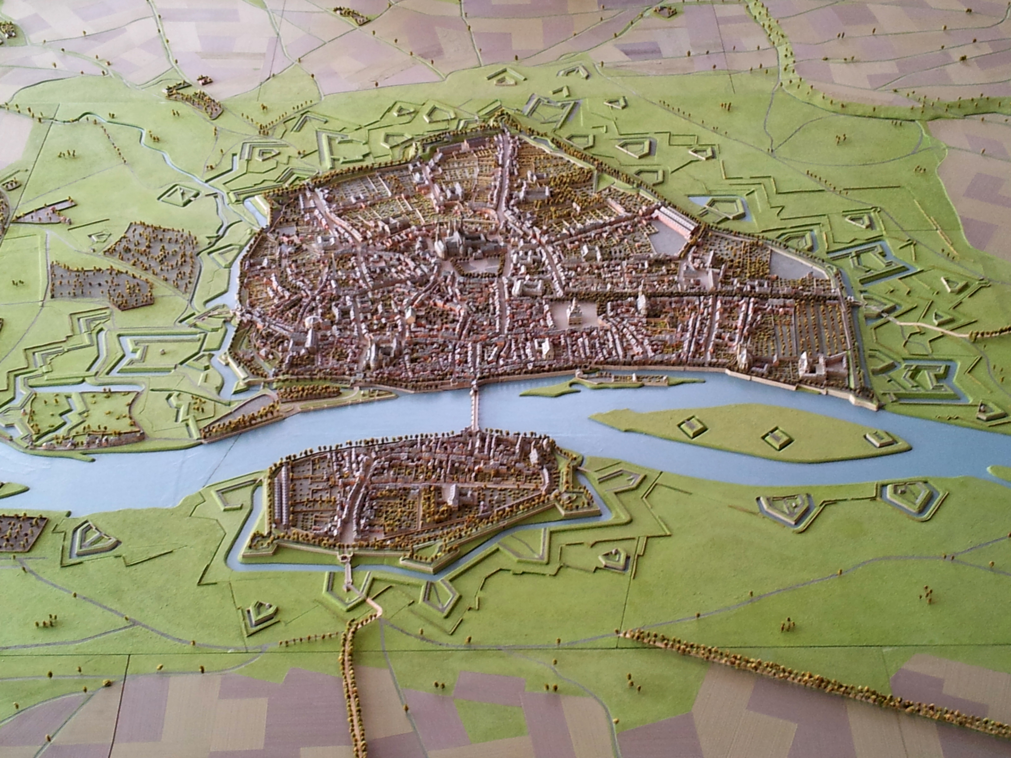 View of the Maquette of Maastricht. The scale model was made in 1974-1982, a genuine copy of the 18th-century original made for King Louis XV of France, now in the Palais des Beaux-Arts in Lille). Usually only the central part is on display in Centre Céramique; once in five years the whole maquette is exhibited, as is the case here.